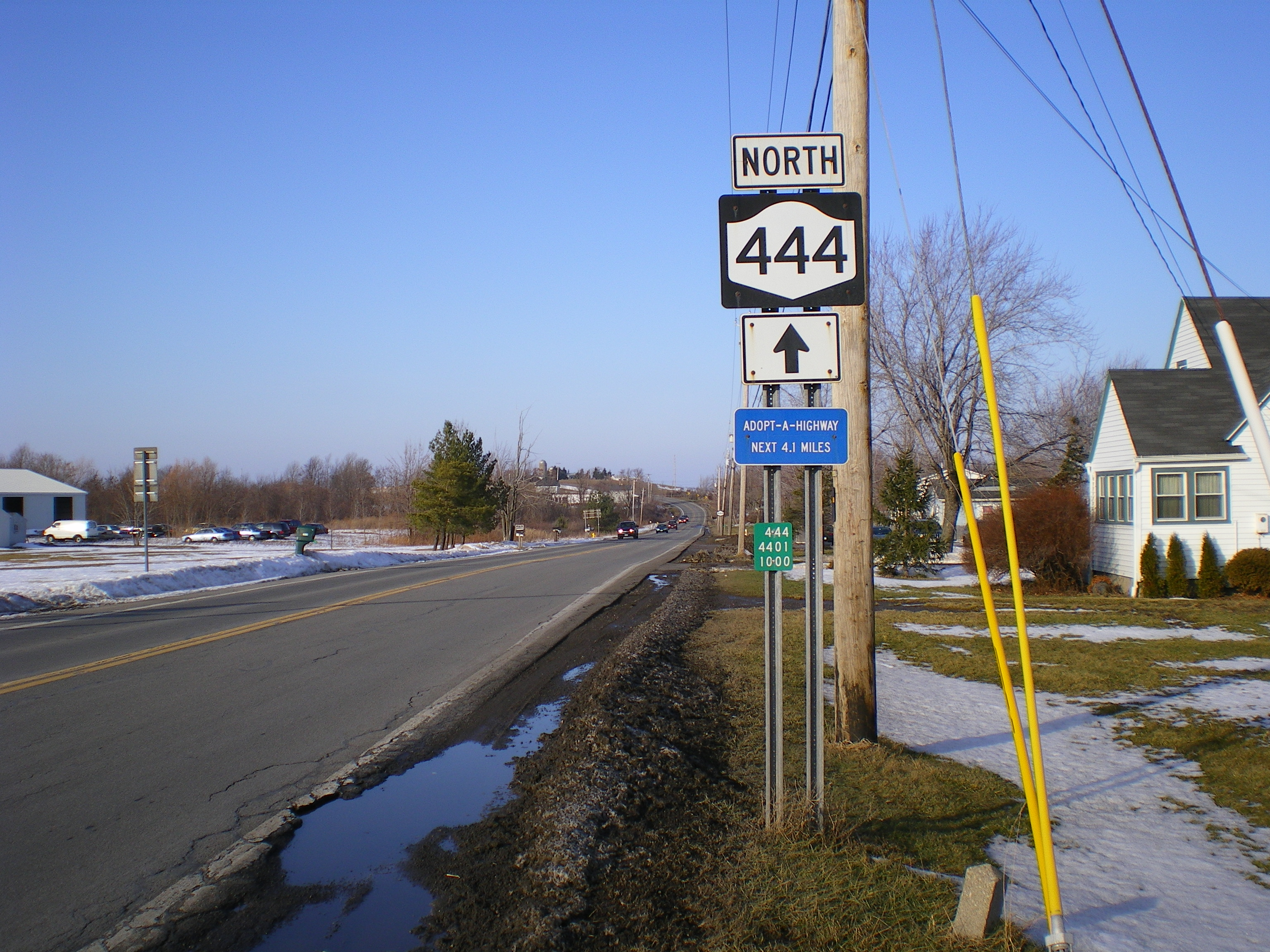 The first reassurance marker on New York State Route 444 northbound south of Bloomfield, New York. The village of Bloomfield is on the opposite side of the hill in the background.